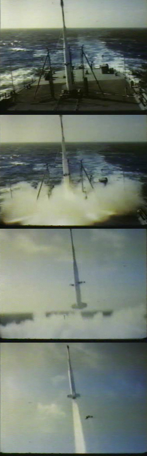 Launch of one of the modified X-17A rockets fired from the USS Norton Sound (AVM-1) during in "Operation Argus", a set of secret U.S. high-atmosphere nuclear tests conducted in 1958 in the South Atlantic ocean.